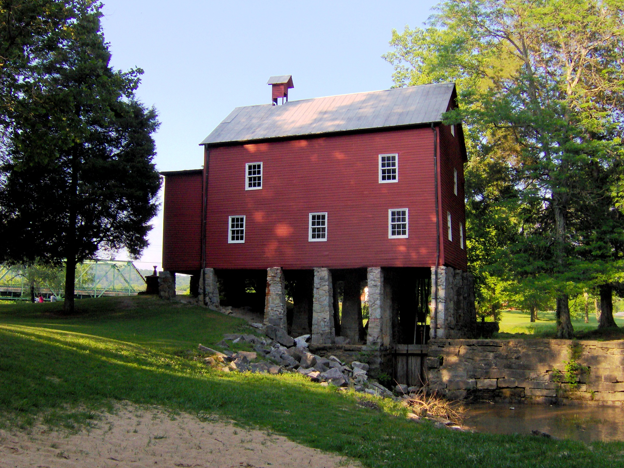 The York Mill at Sgt. Alvin C. York State Historic Park in Pall Mall, in the state of Tennessee. The mill was built in the 1880s and purchased by York in 1943. The state acquired it in 1967. Part of the milldam is visible on the lower right. The millrace's "trap door" is between the last two stone pillars immediately left of the milldam. Coordinates: 36.54147 -84.96217